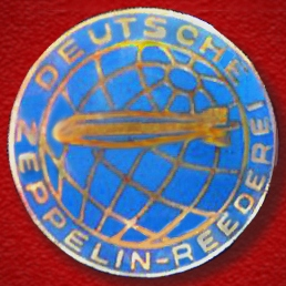 Lapel pin with the logo of the Deutsche Zeppelin Reederei (DZR) distributed to passengers as a promotional item in the mid-1930's.